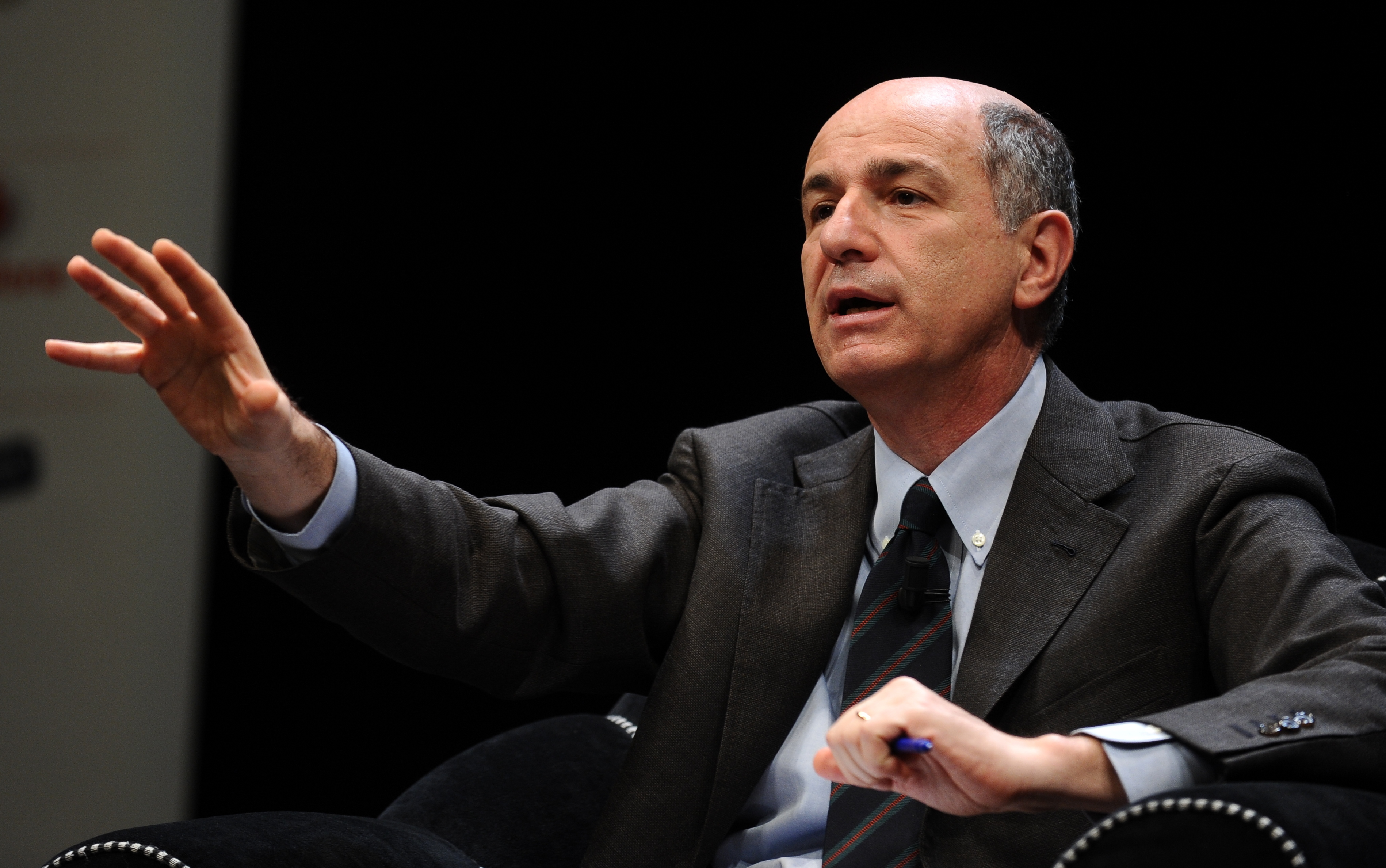 Corrado Passera, Italian manager, banker and minister of economic development, infrastructure and transport in the Mario Monti Cabine (2011-2013)